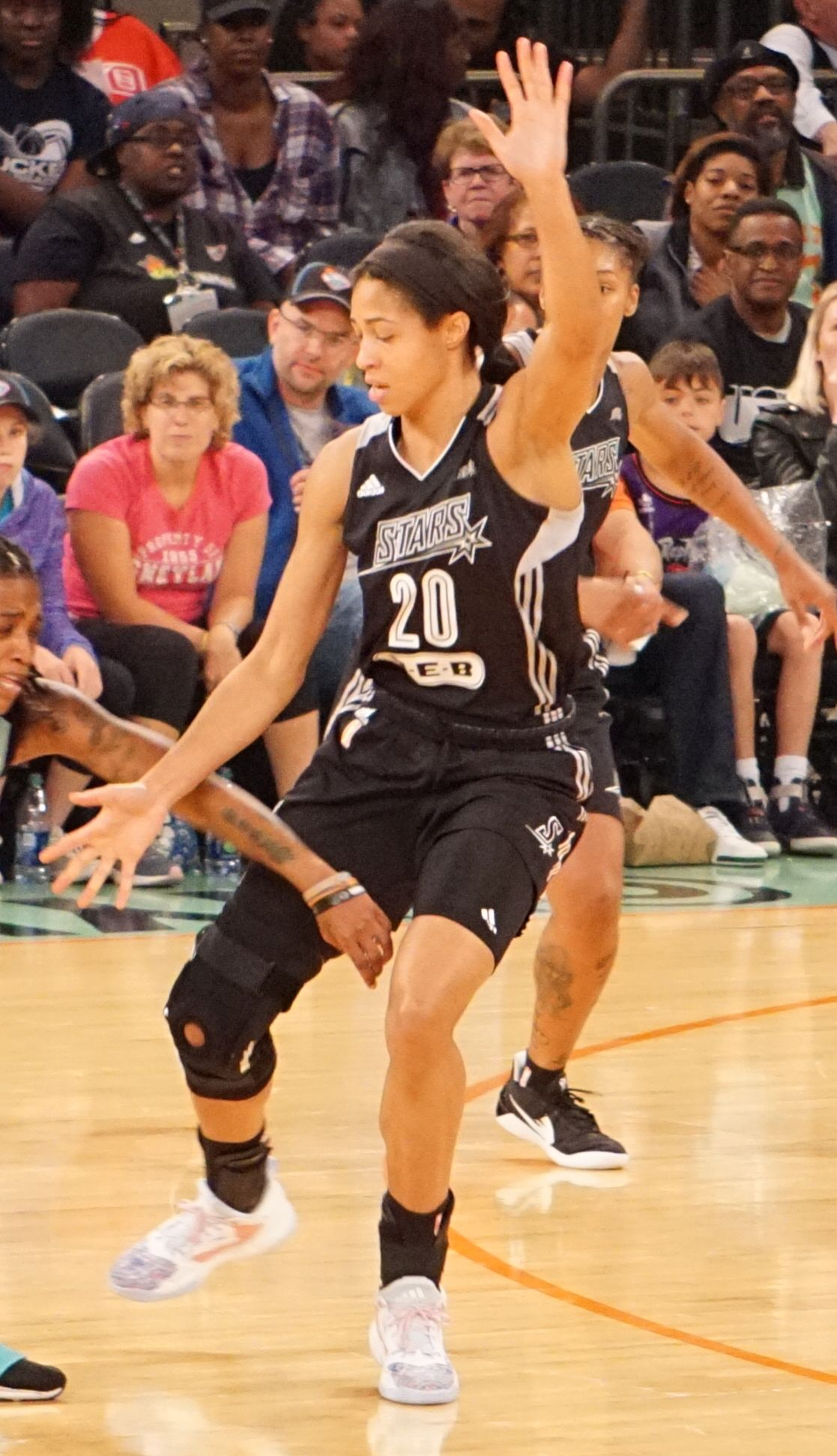 Isabelle Harrison, player for San Antonio Silver Stars. in a game between San Antonio and the New York Liberty